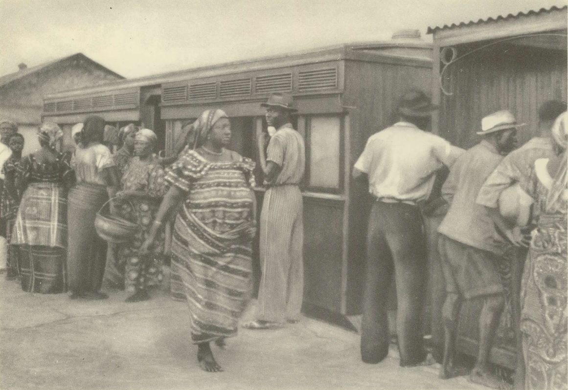 Chemin de fer du Mayumbe - Des yoyageurs ingigenes